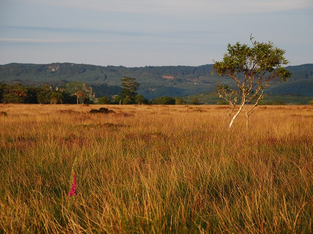 Moine Mhor The Moine Mhor is a large blanket bog lying between the hills and the sea. In the glowing evening light close to the longest day, one could be forgiven for looking for herds of wildebeest and the occasional giraffe.